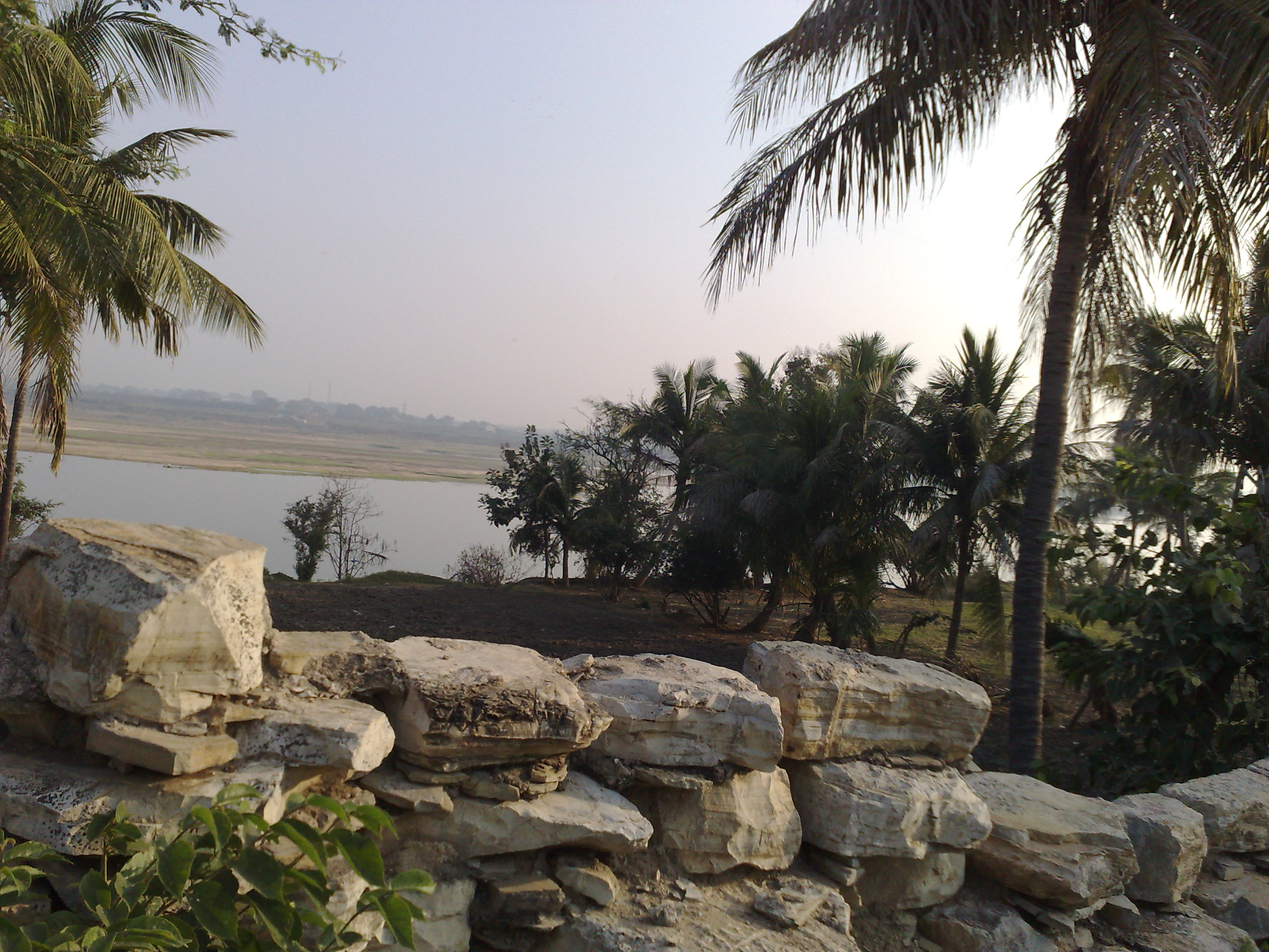 after floods